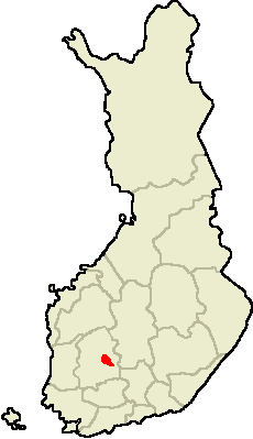 Own work, location of Orivesi, Finland